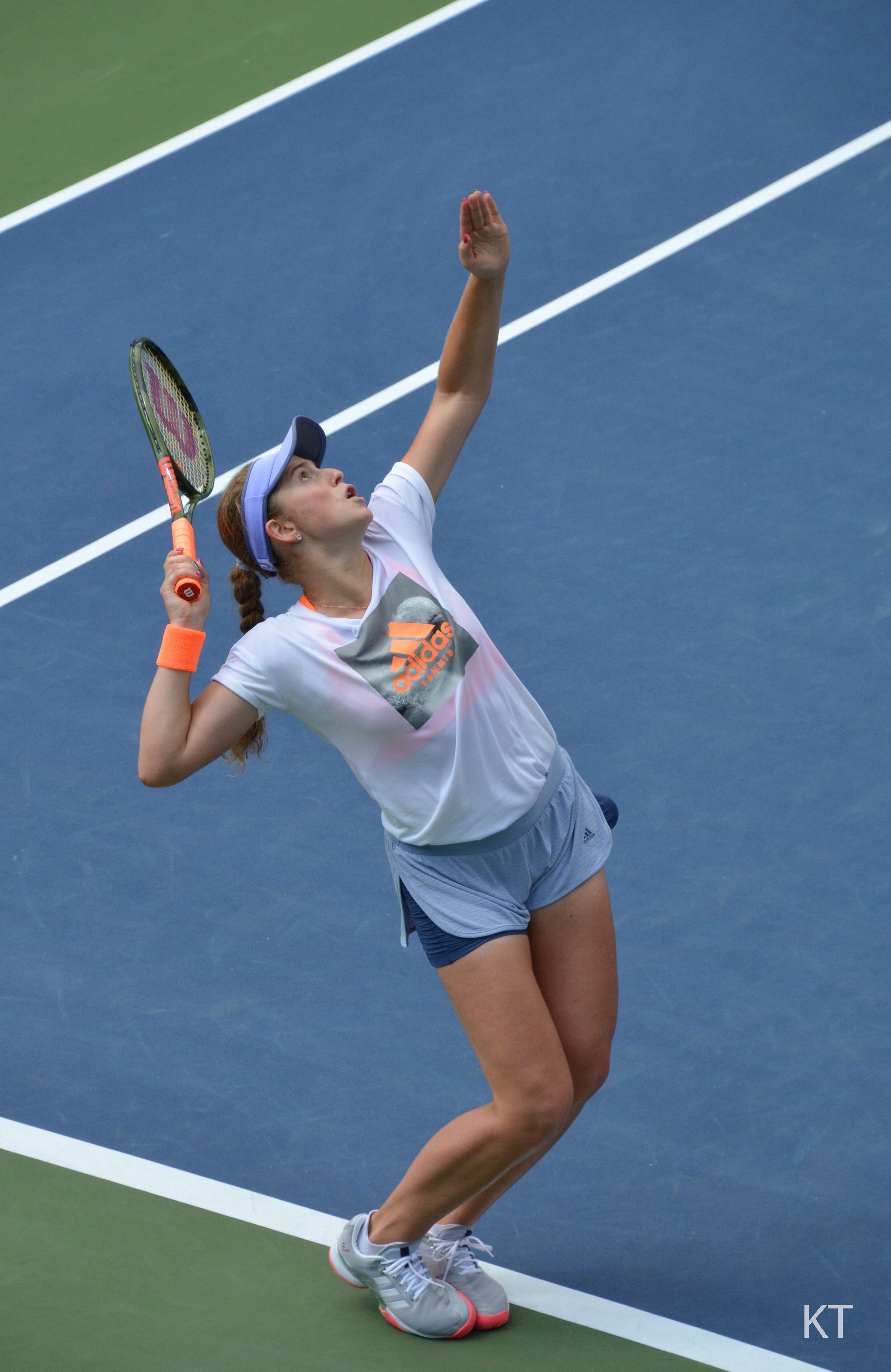 Practice Sunday at the US Open 2018.